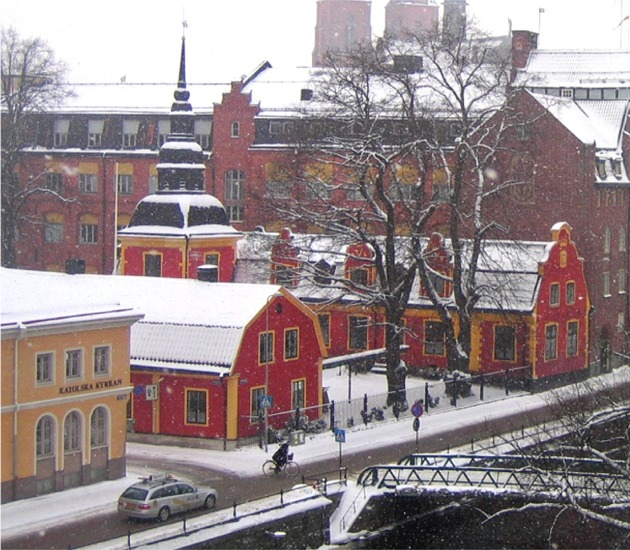 Uppsala, a view over the Fyris river and Västgöta nation (red building). This is a cropped version of Image:Uppsala - View of river and Västgöta nation.jpg.